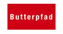 Butterpfad sign.